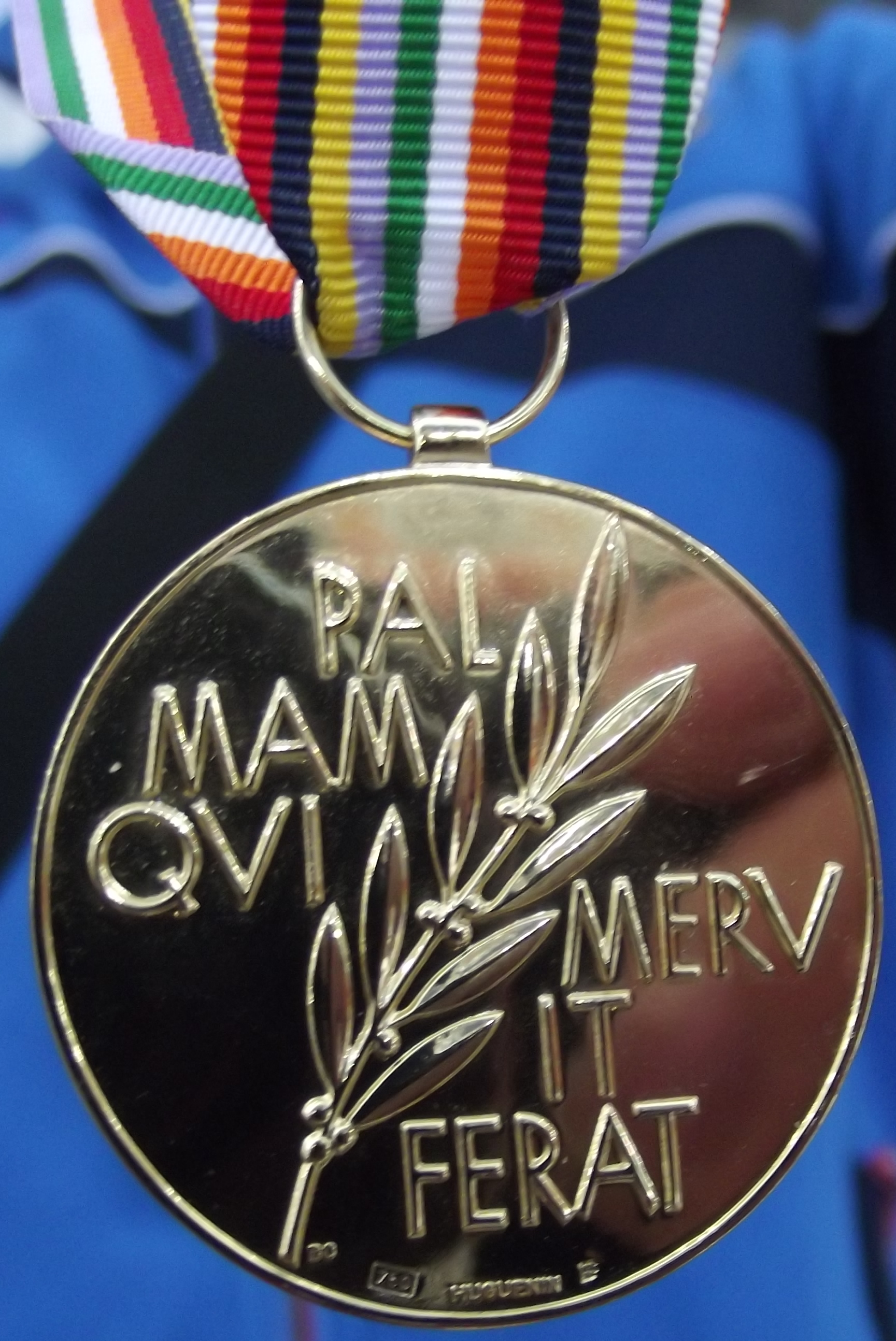 2013 World Single Distance Speed Skating Championships, Denis Yusvov's gold medal for 1500 metres